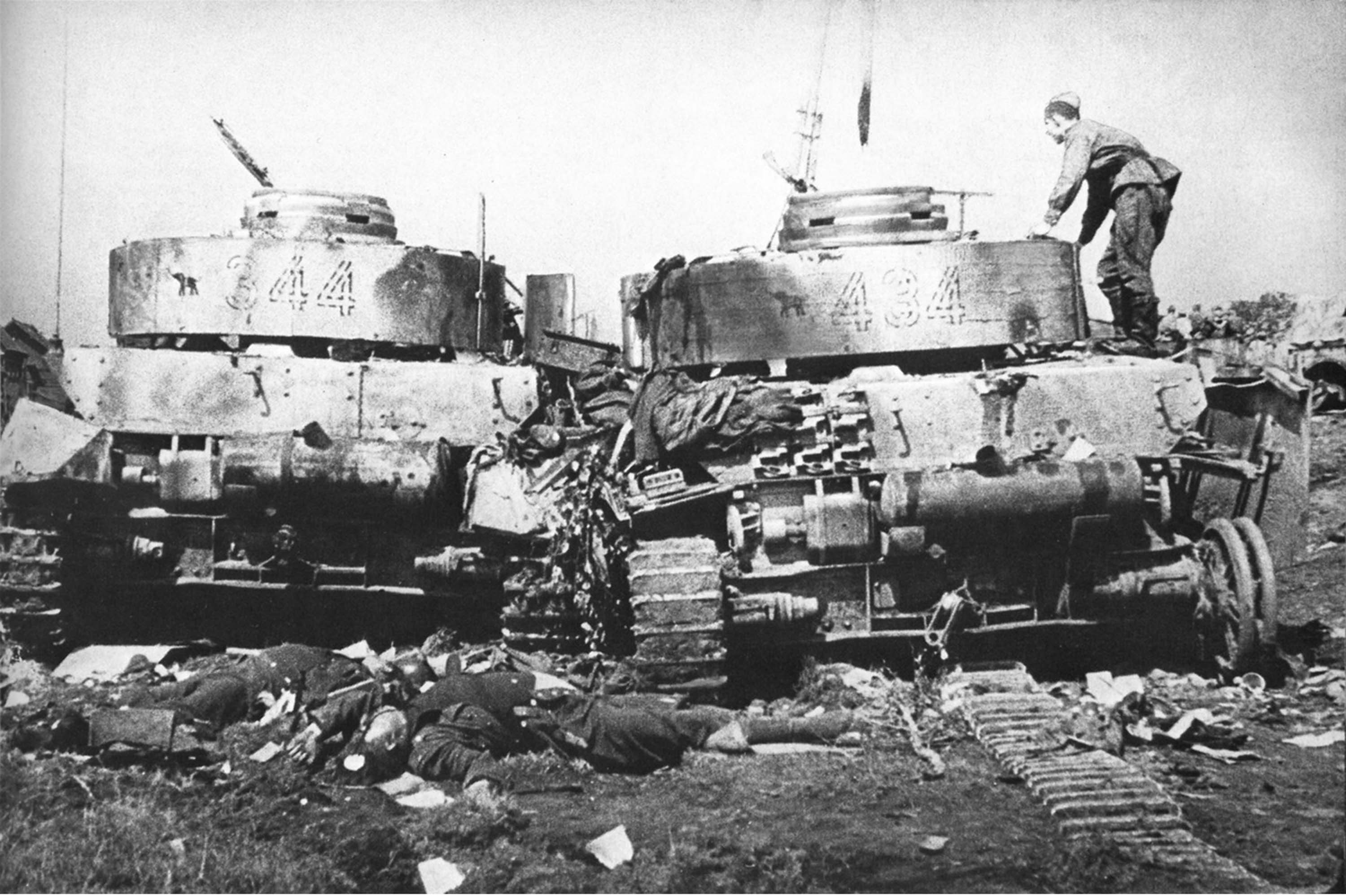 Two Destroyed Panzer IV belonging to the 20. Panzer Division, dead crew members, Soviet Soldiers at the pocket of Bobruisk